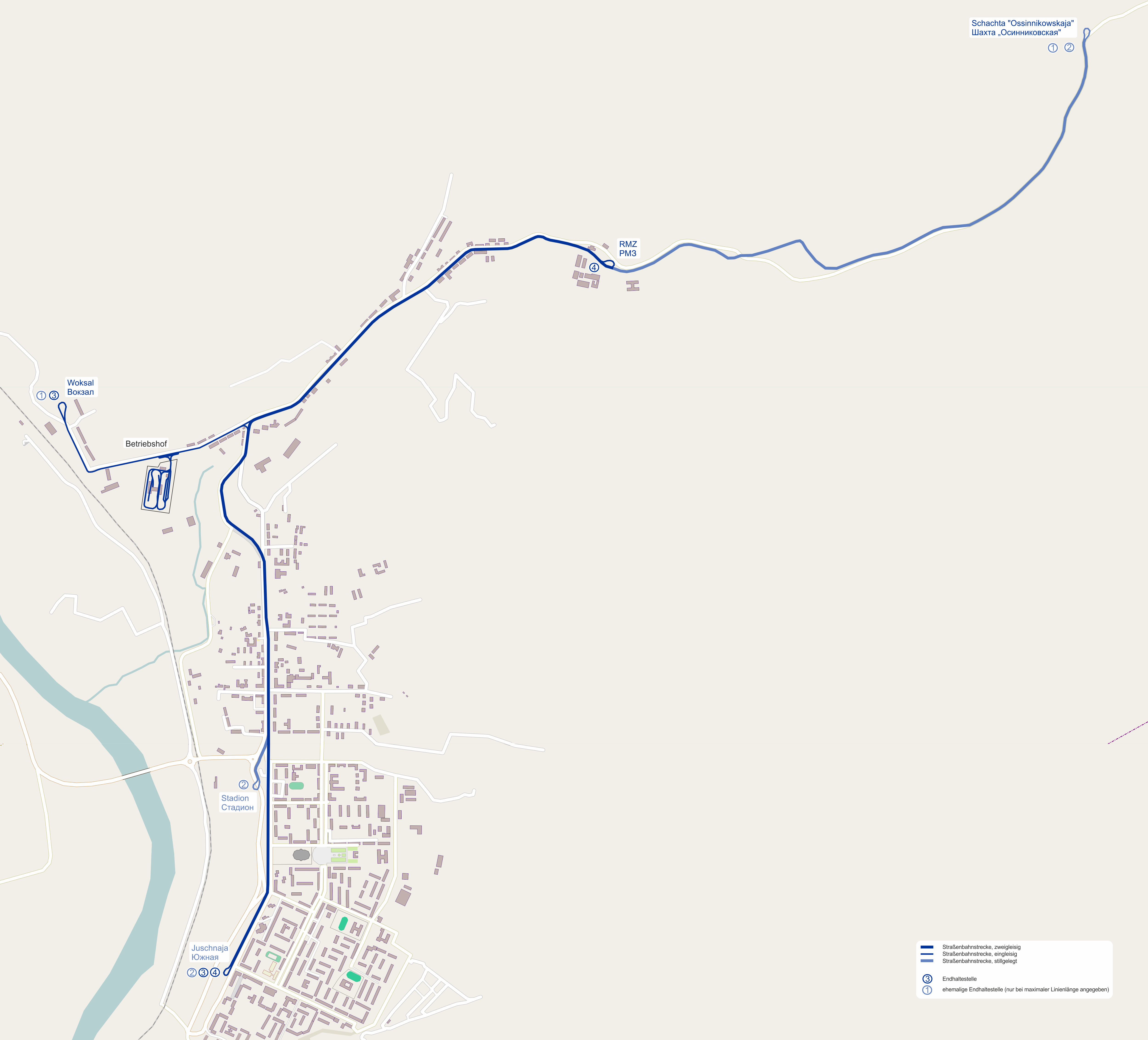 Straßenbahn Ossinniki This map may be incomplete, and may contain errors. Don't rely solely on it for navigation.